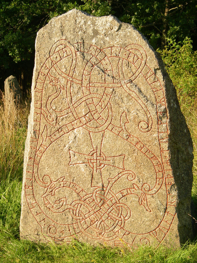 runic stone Upplands runinskrifter U808